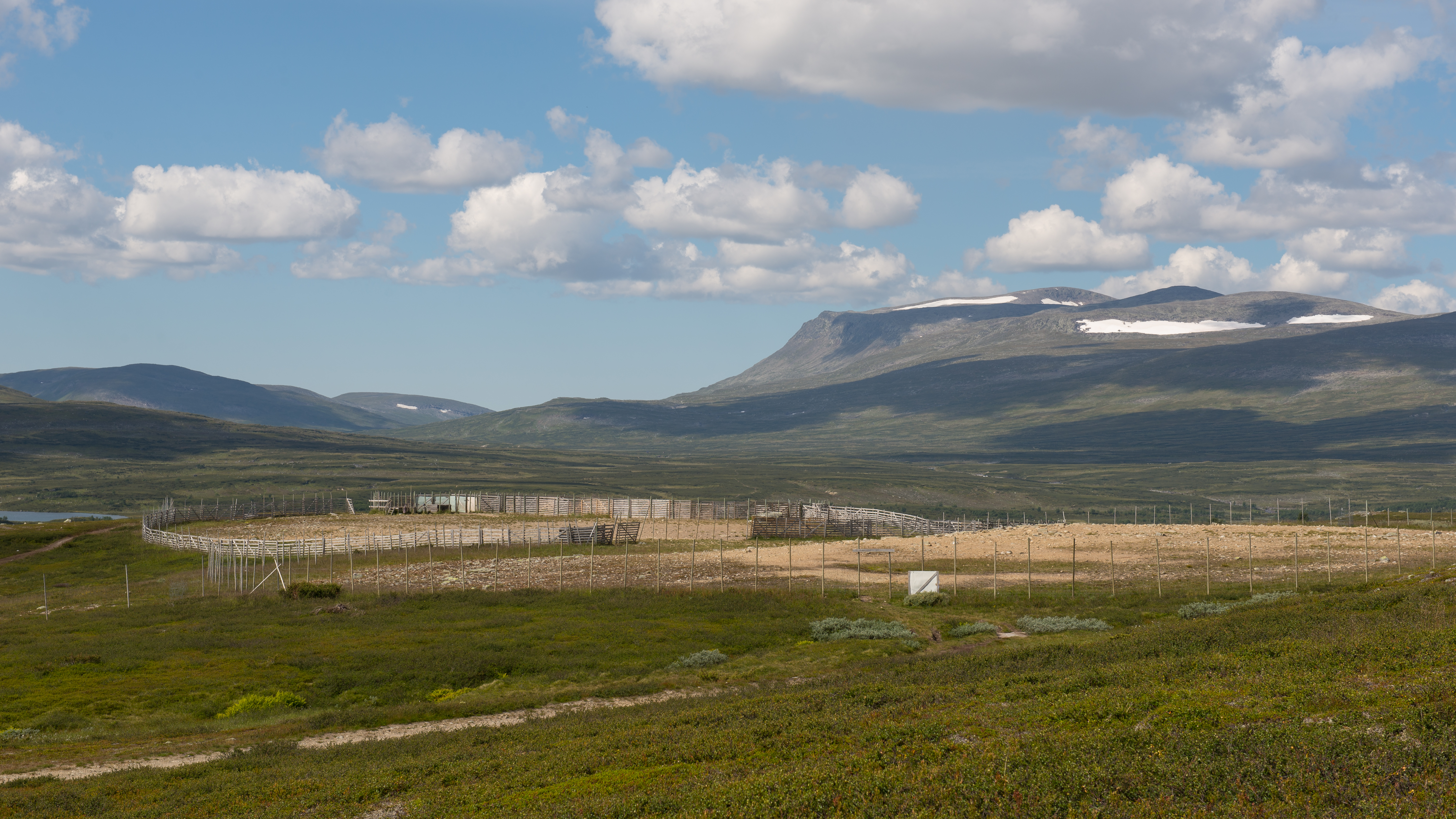 Reindeer calf marking enclosures at Ljungris, Berg Municipality, Jämtland County. Ljungris is owned by the Sámi (Handöldalens sameby) and used for calf marking in the summer.